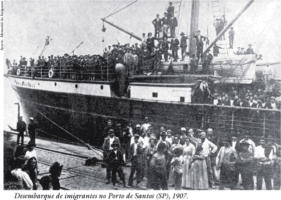 Ship with Italian immigrants arriving in Brazil